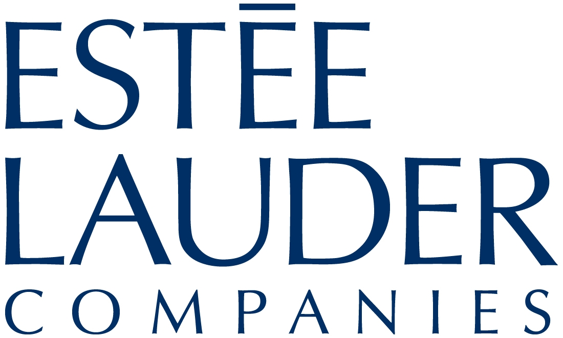 The Estee Lauder Companies logo